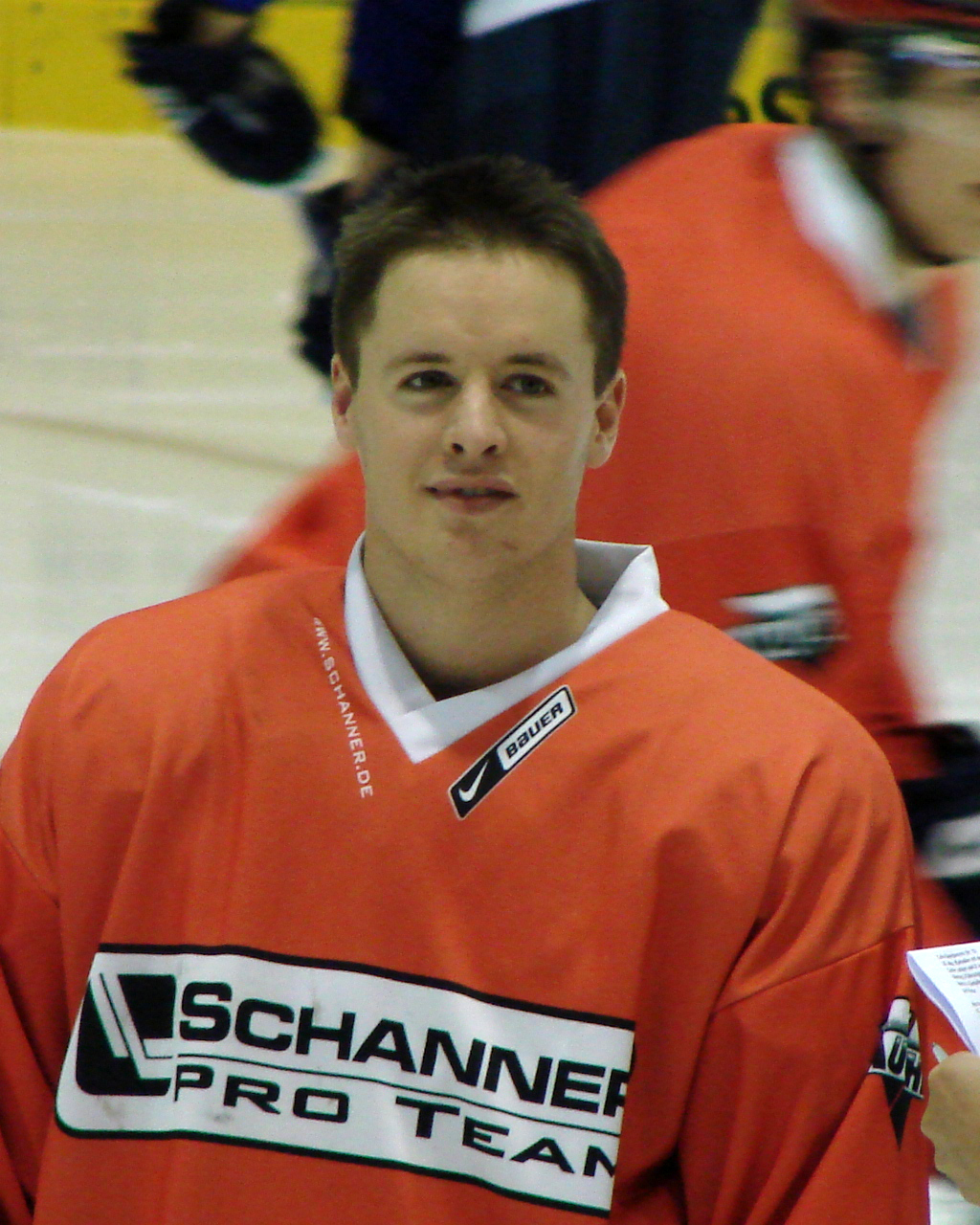 Alex Leavitt, ice hockey player from Canada